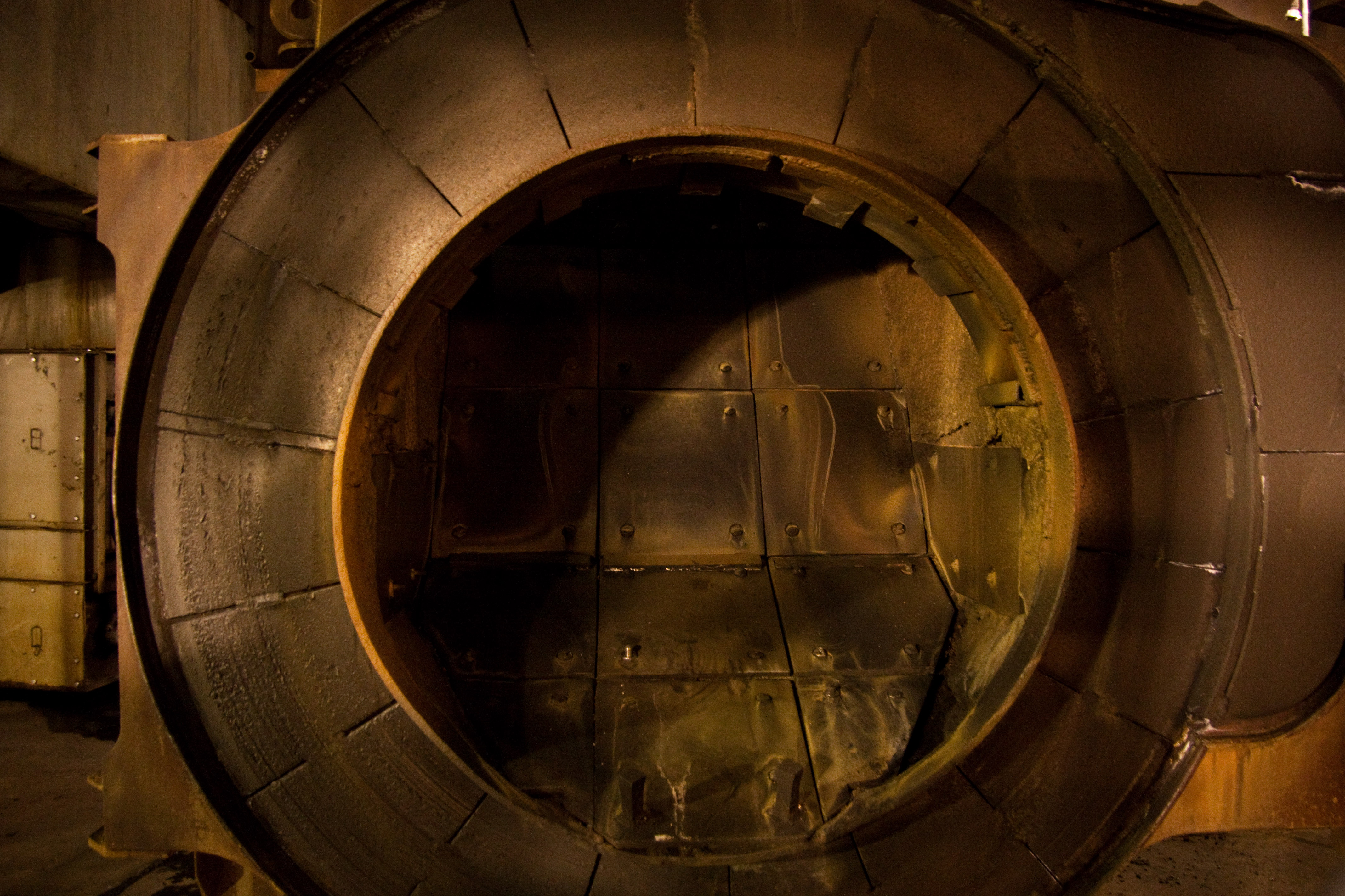 Coal mill of lignite power plant Klingenberg in Berlin, Germany.